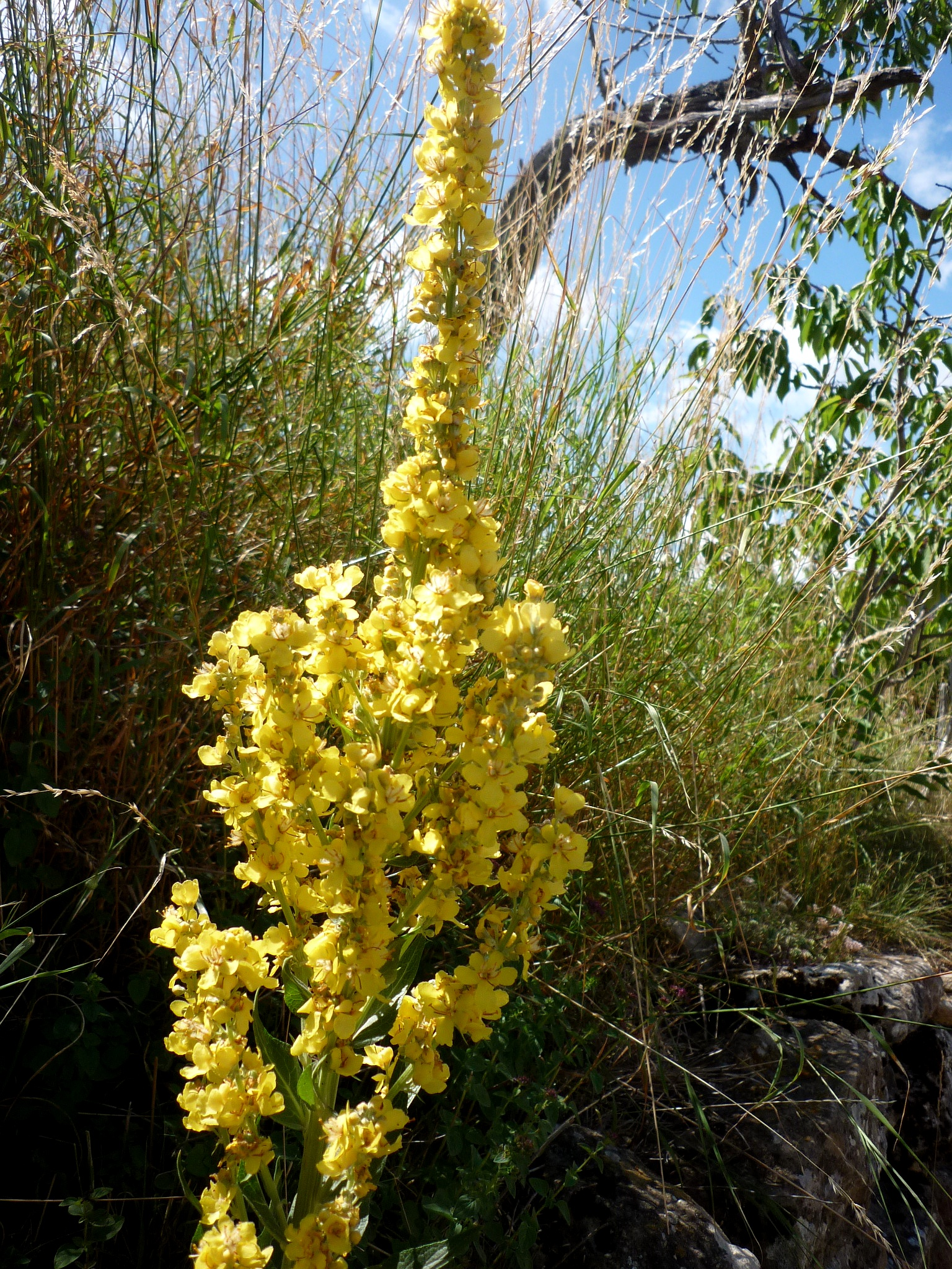 Verbascum pulverulentum. In Navès (Solsonès-Catalunya). To 1.315 m. altitude